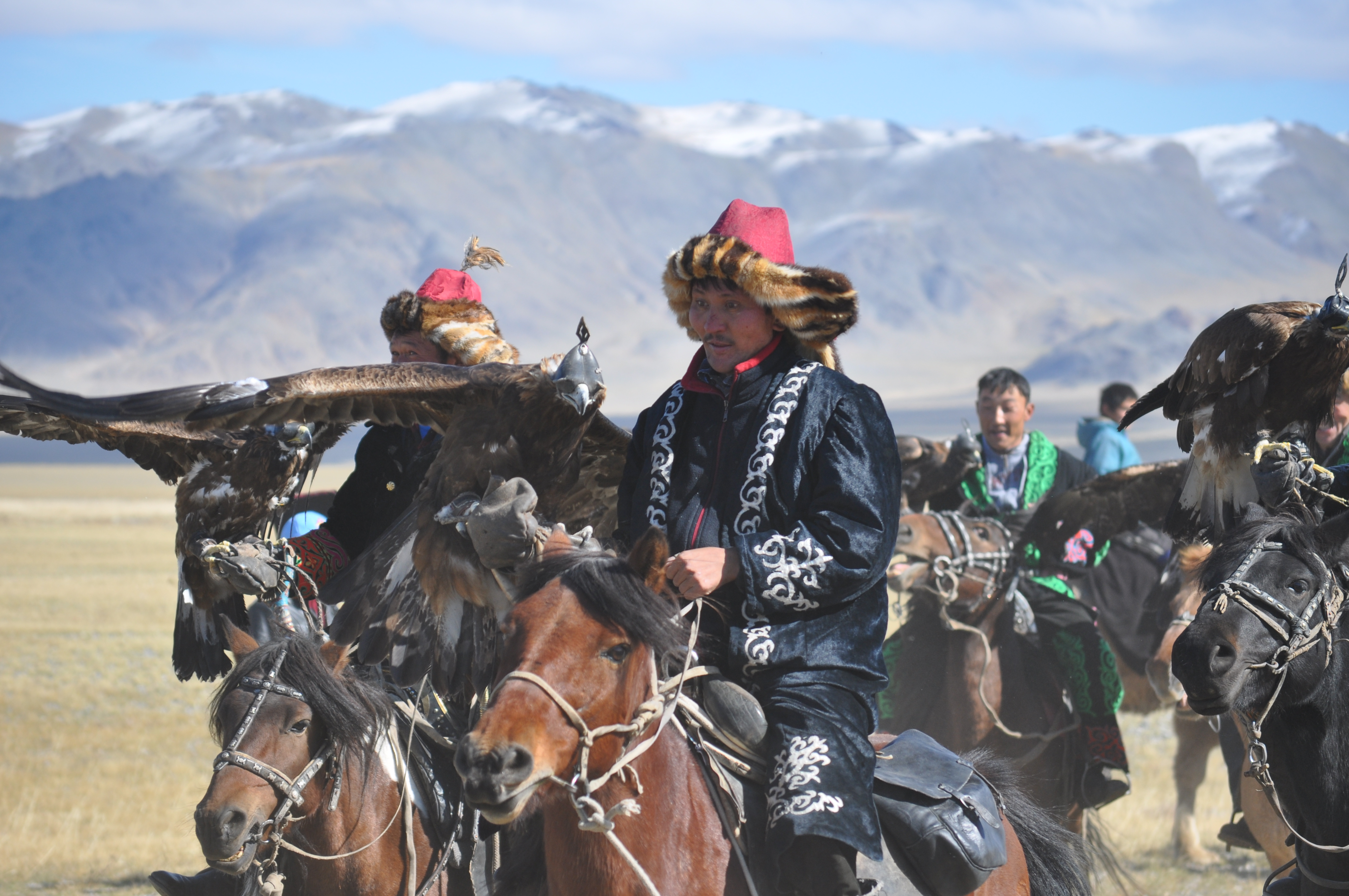 Kazakh eagle hunters displaying their hunting eagles during the opening of the Kazakh Altai Eagle Festival in Sagsai, Bayan-Olgii, Mongolia.